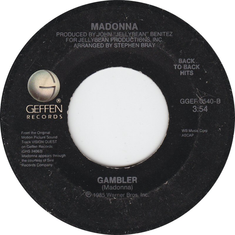 A label of U.S vinyl single of "Gambler" by Madonna